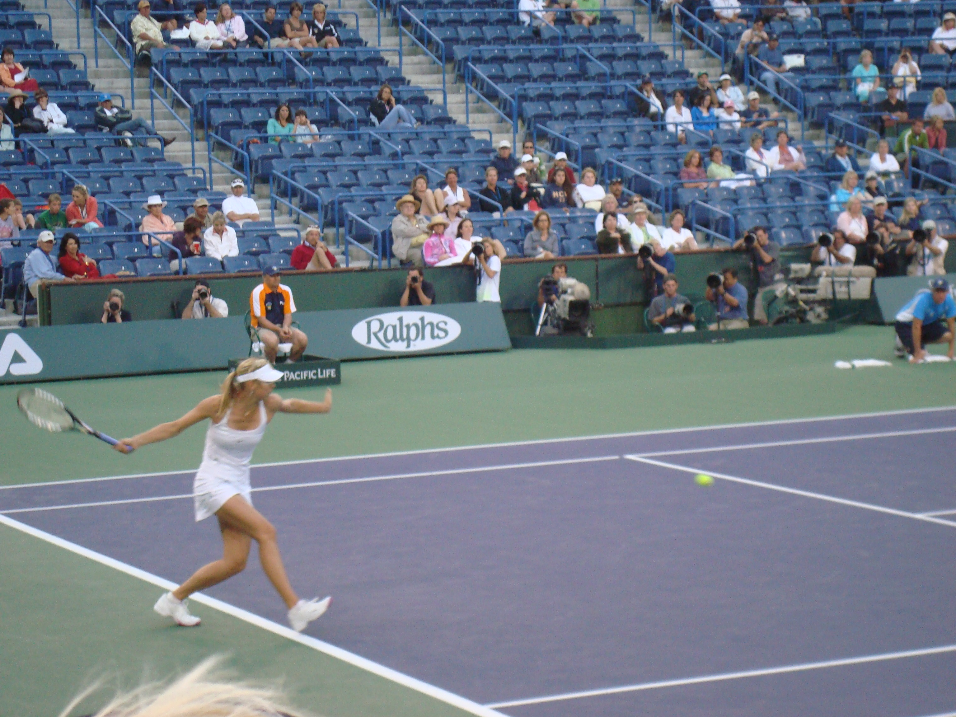 Cropped photo of Maria Sharapova, professional tennis player, taken from by ryarwood.